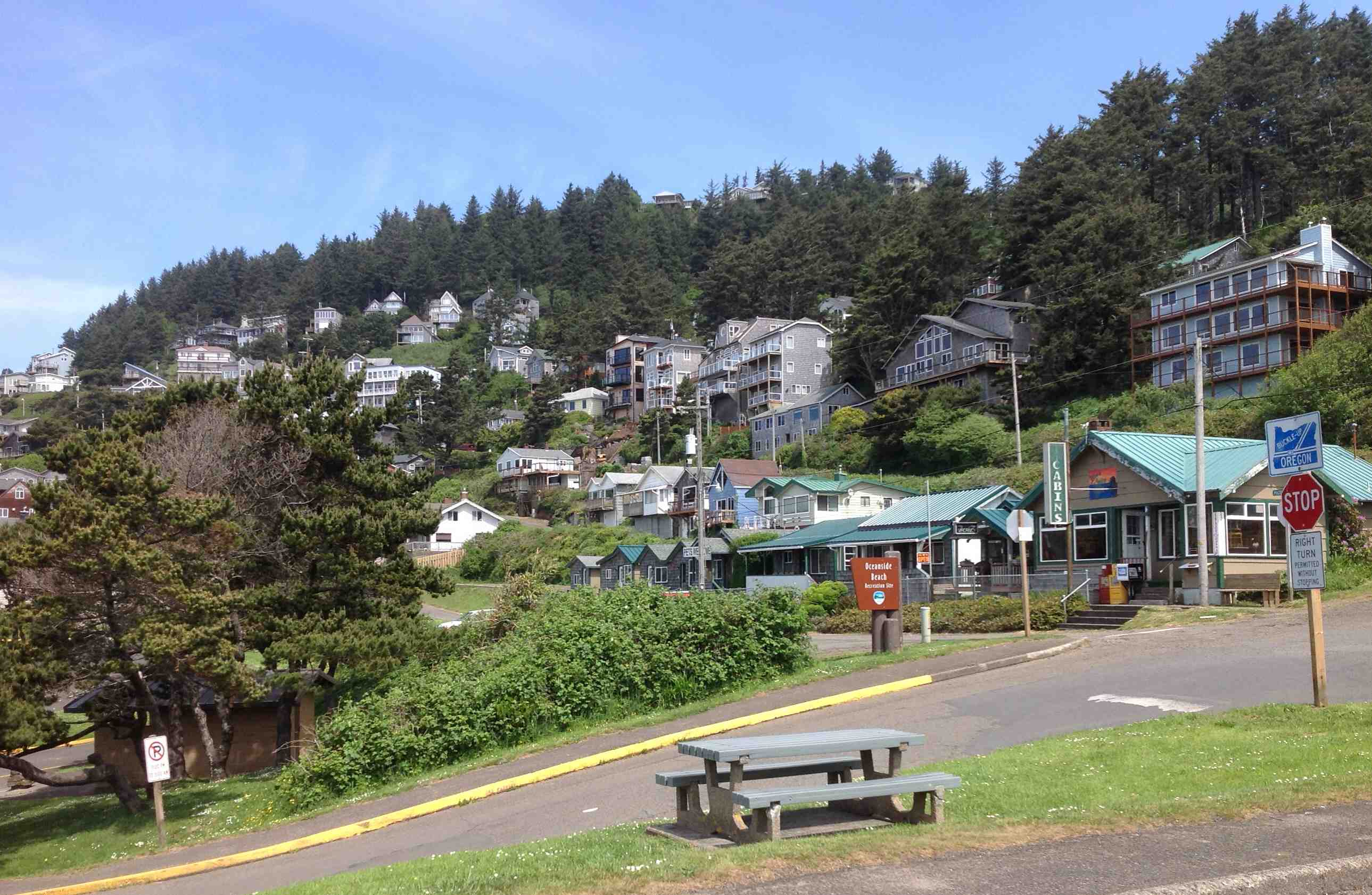 View on Oceanside (Oregon)